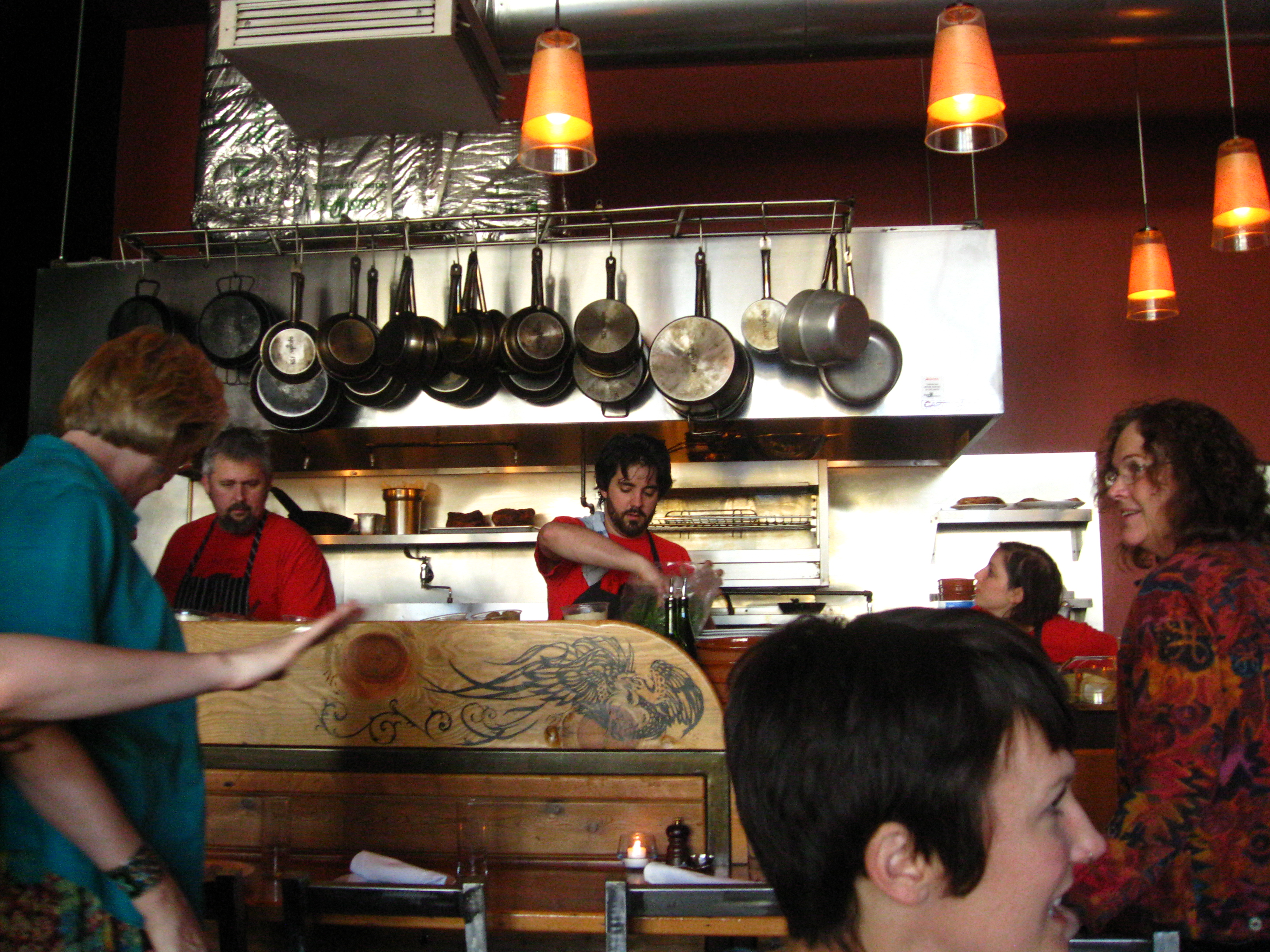 Toro Bravo, Spanish cuisine (tapas) in Portland Oregon.